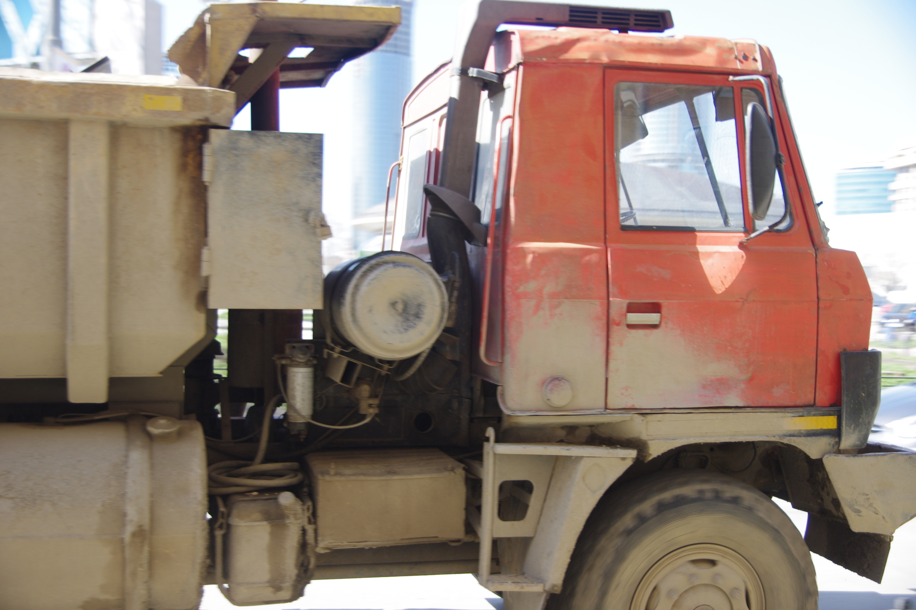 Architecture of Ekaterinburg, Russia.